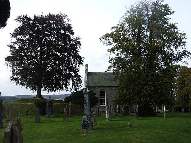 Tom na Croiseige The tree-topped two-tiered mound in Tomnacross graveyard, to the left of the church, is an ancient earthwork; a place where justice is believed to have been dispensed.